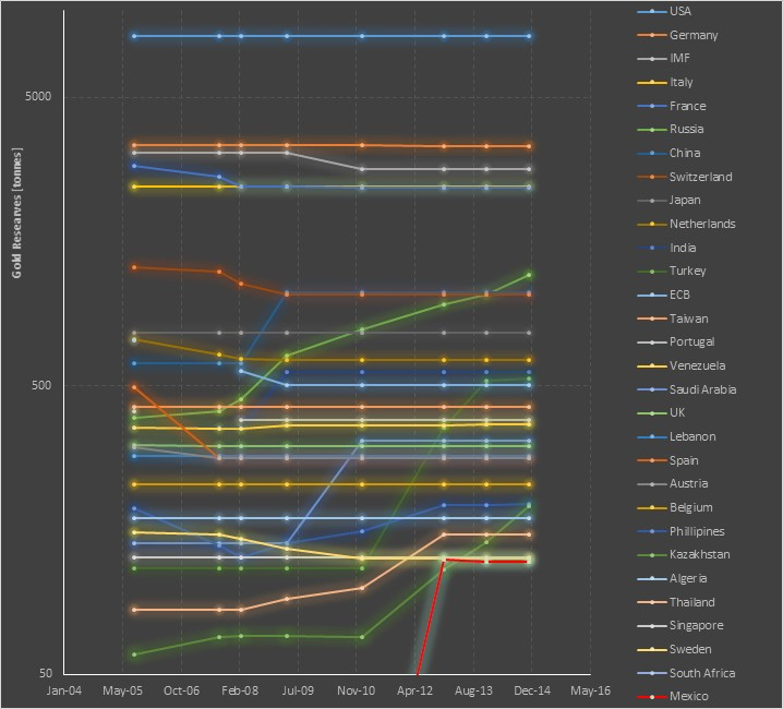 Plot shows change in gold reserves in 30 countries with the largest stockpiles in the last 10 years